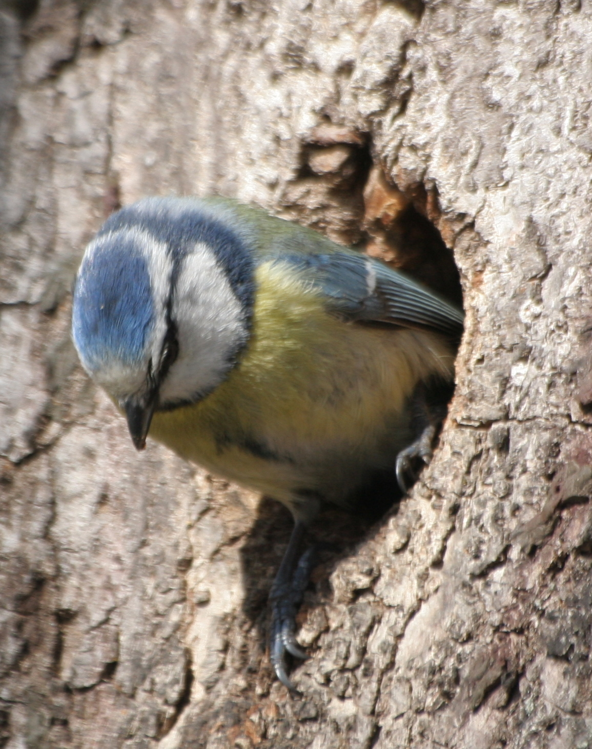 A blue tit at a tree hole in the Hofgarten in Munich: in the days before this it had been carrying away dead leaves from the hole